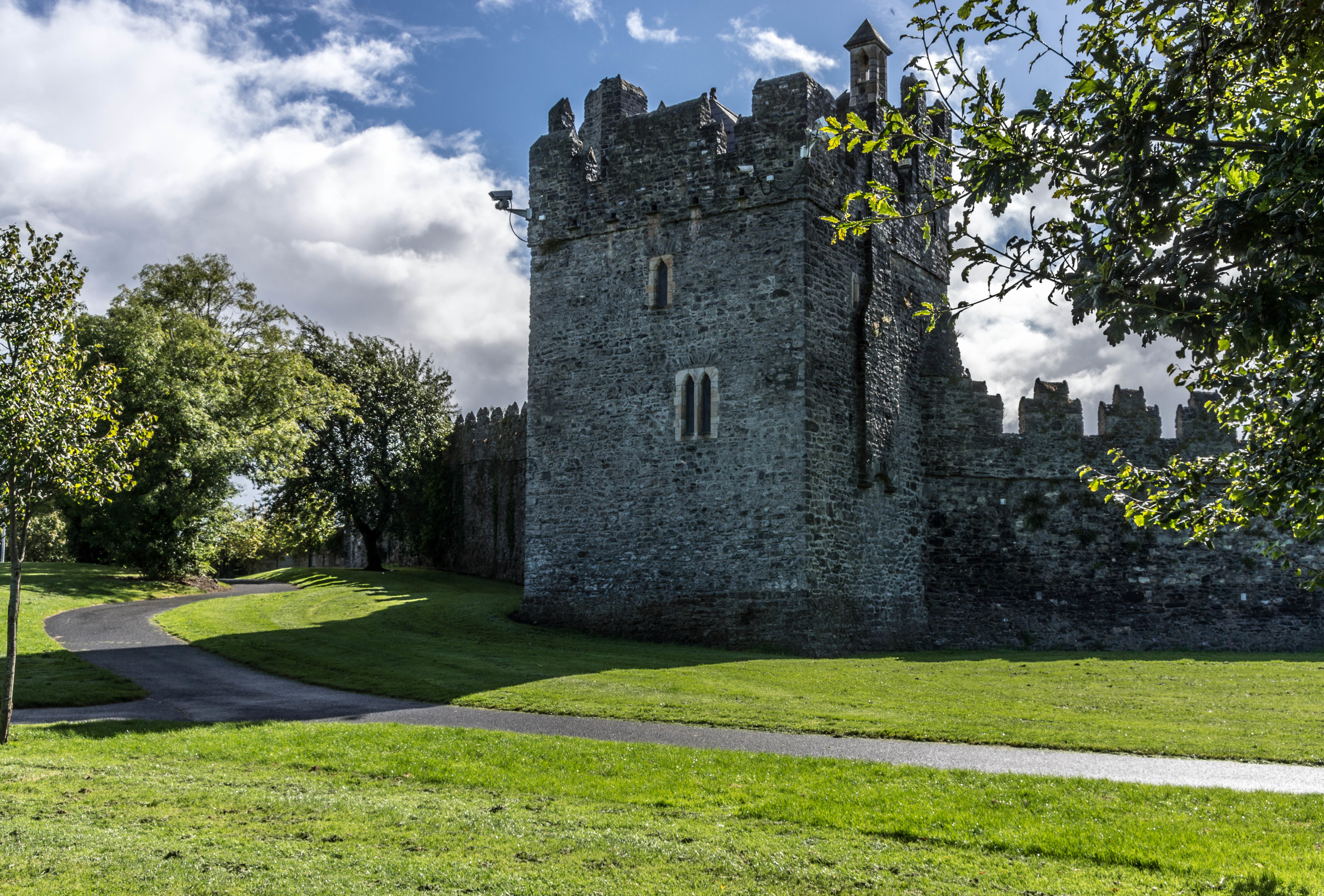 Swords Castle (Near Dublin Airport)